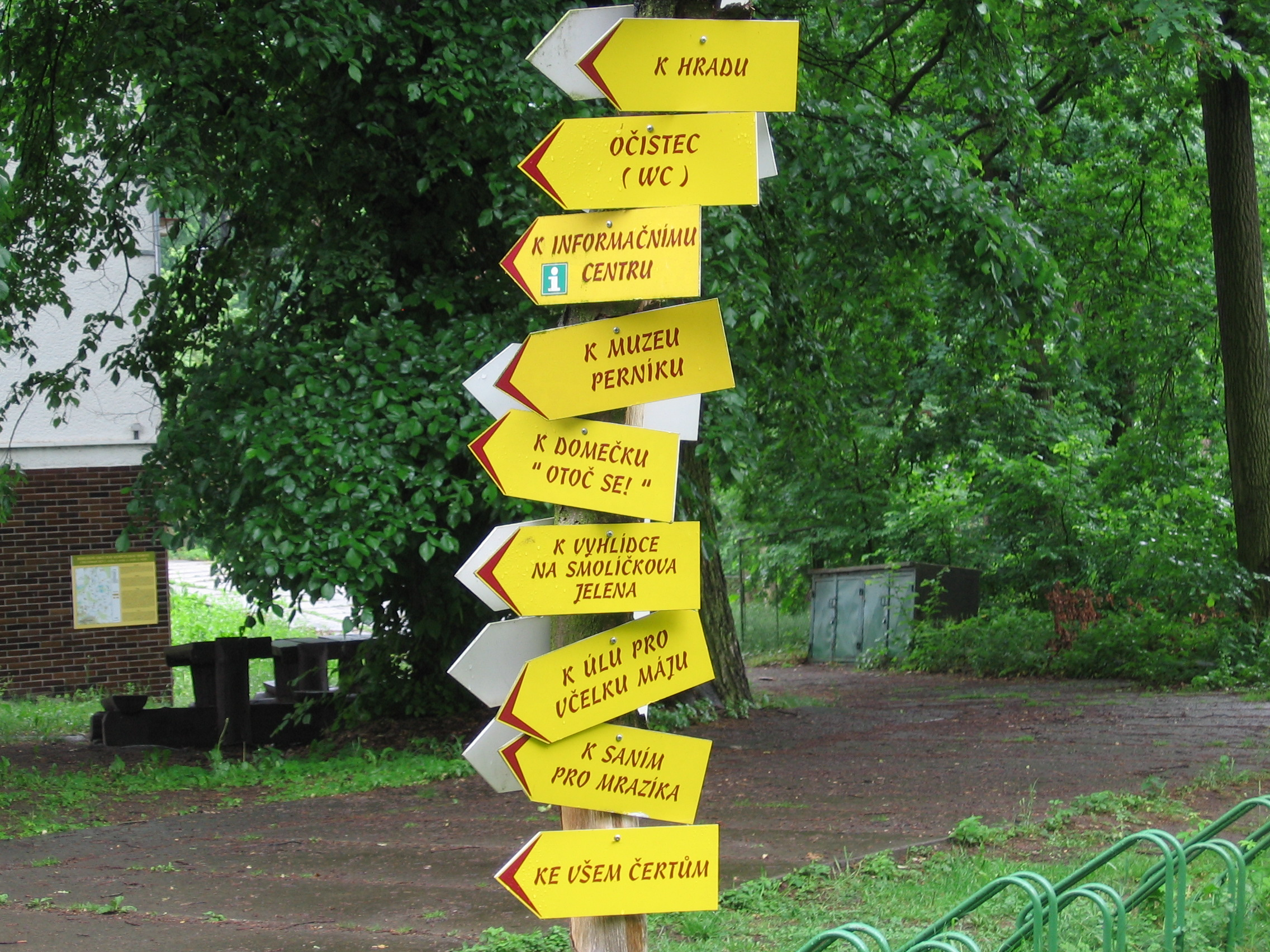 Guidepost near Gingerbread cottage, Raby near Pardubic, Czech Republic.